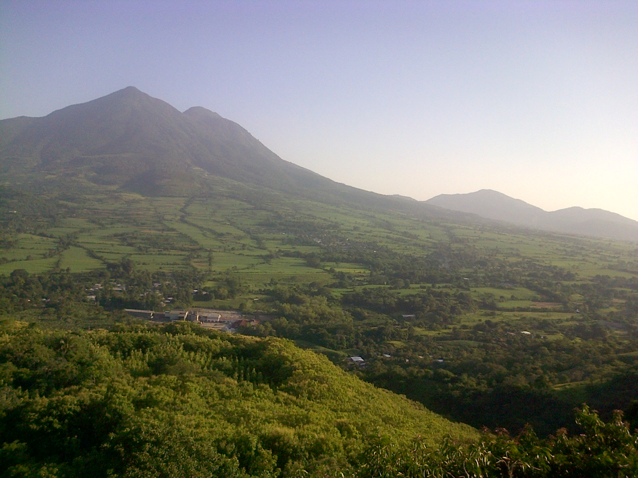 Volcán de San Vicente